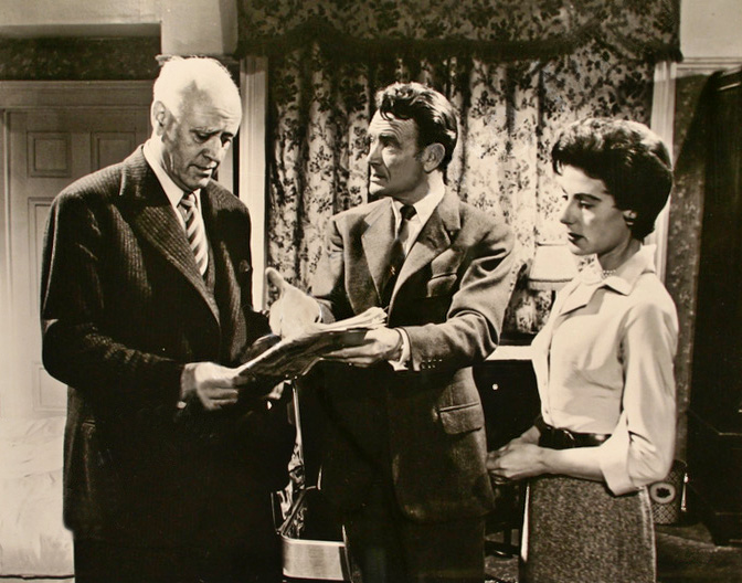 Studio press photograph of still from film Escapade, 1955